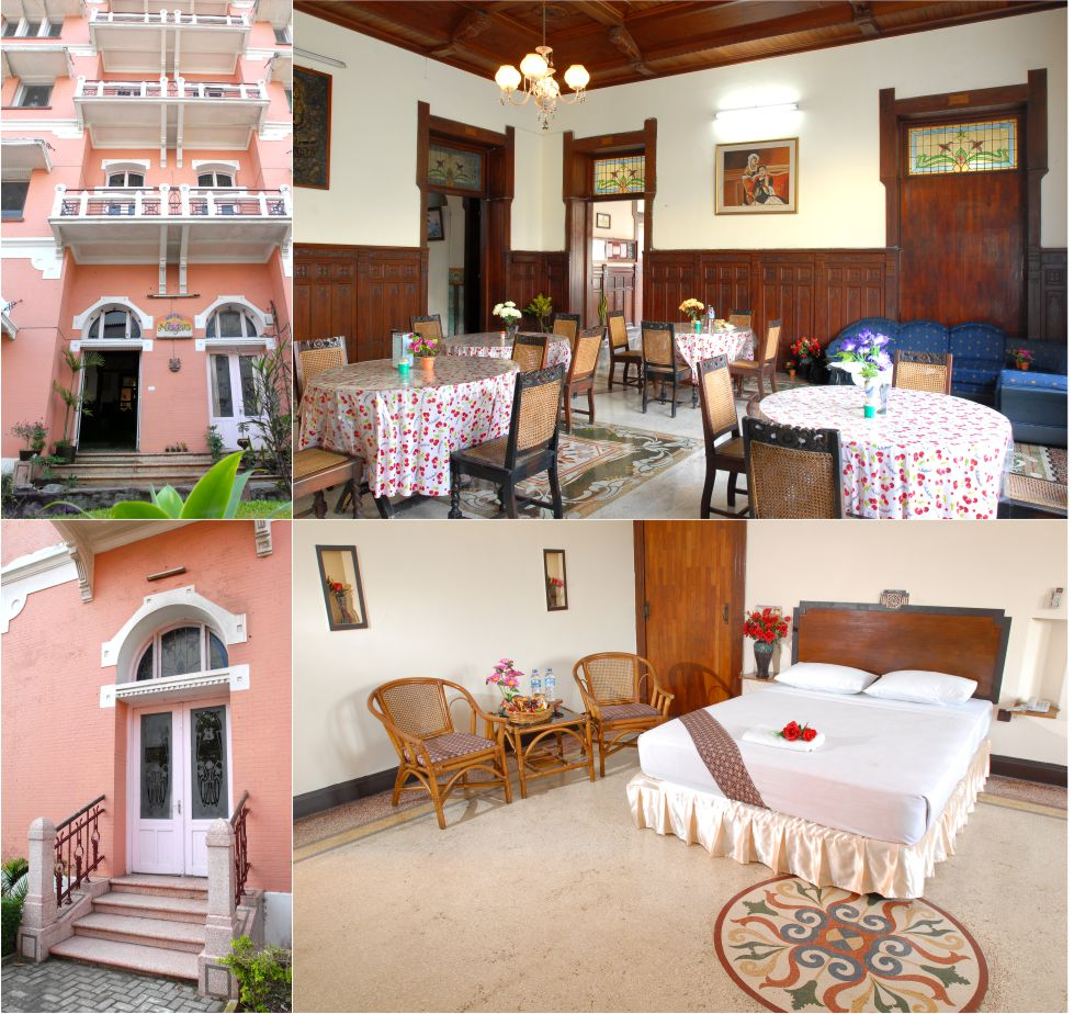 Niagara Hotel Facilities